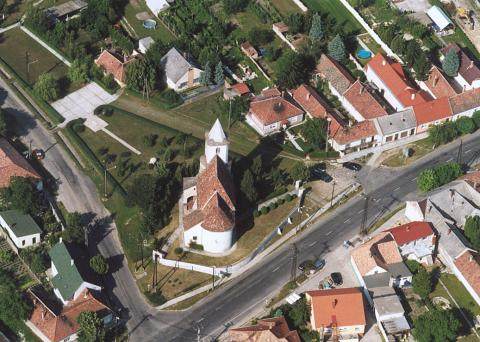 Hegyeshalom, Hungary, aerialphotography